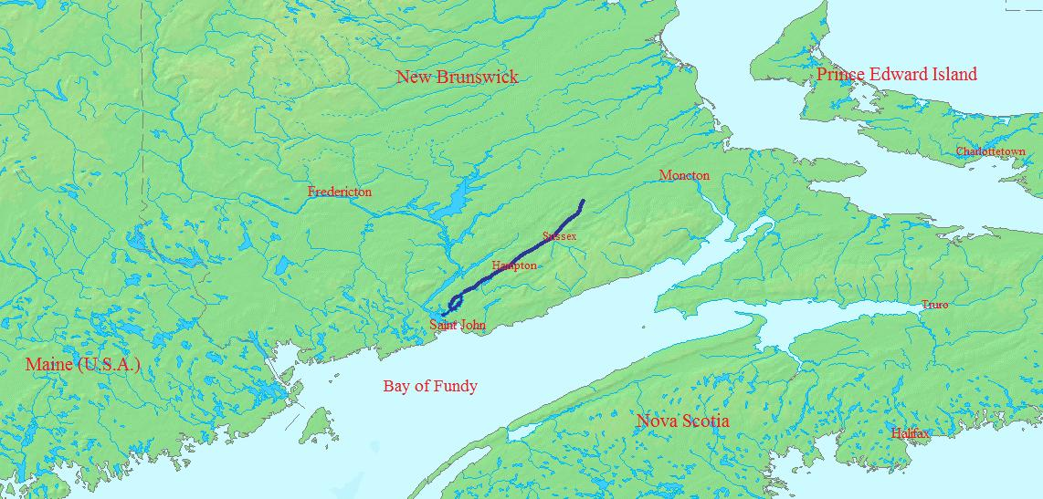 The underlying topographic maps used in this image come from the Demis Web Map Server, and are in the public domain. The labels and river course were added by me.